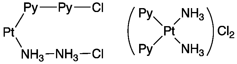 two representations of the structure of [Pt(NH3)2(py)2]Cl2, an obsolete one favored by Jorgenson and Werner's